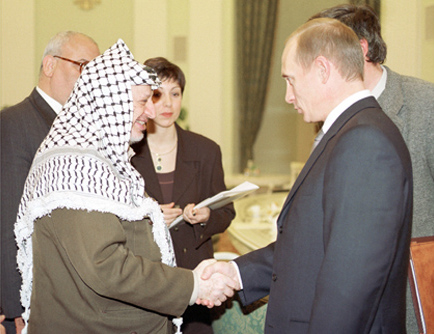 THE KREMLIN, MOSCOW. President Putin and Palestinian National Authority President Yasser Arafat.